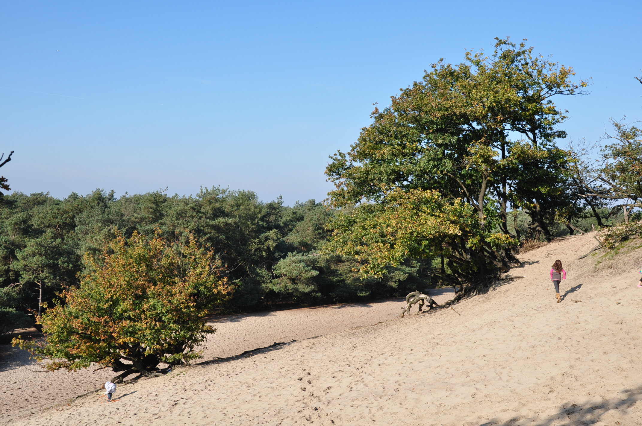 Dunes at Bedaf, a hamlet near Uden (Province of North Brabant, Netherlands).